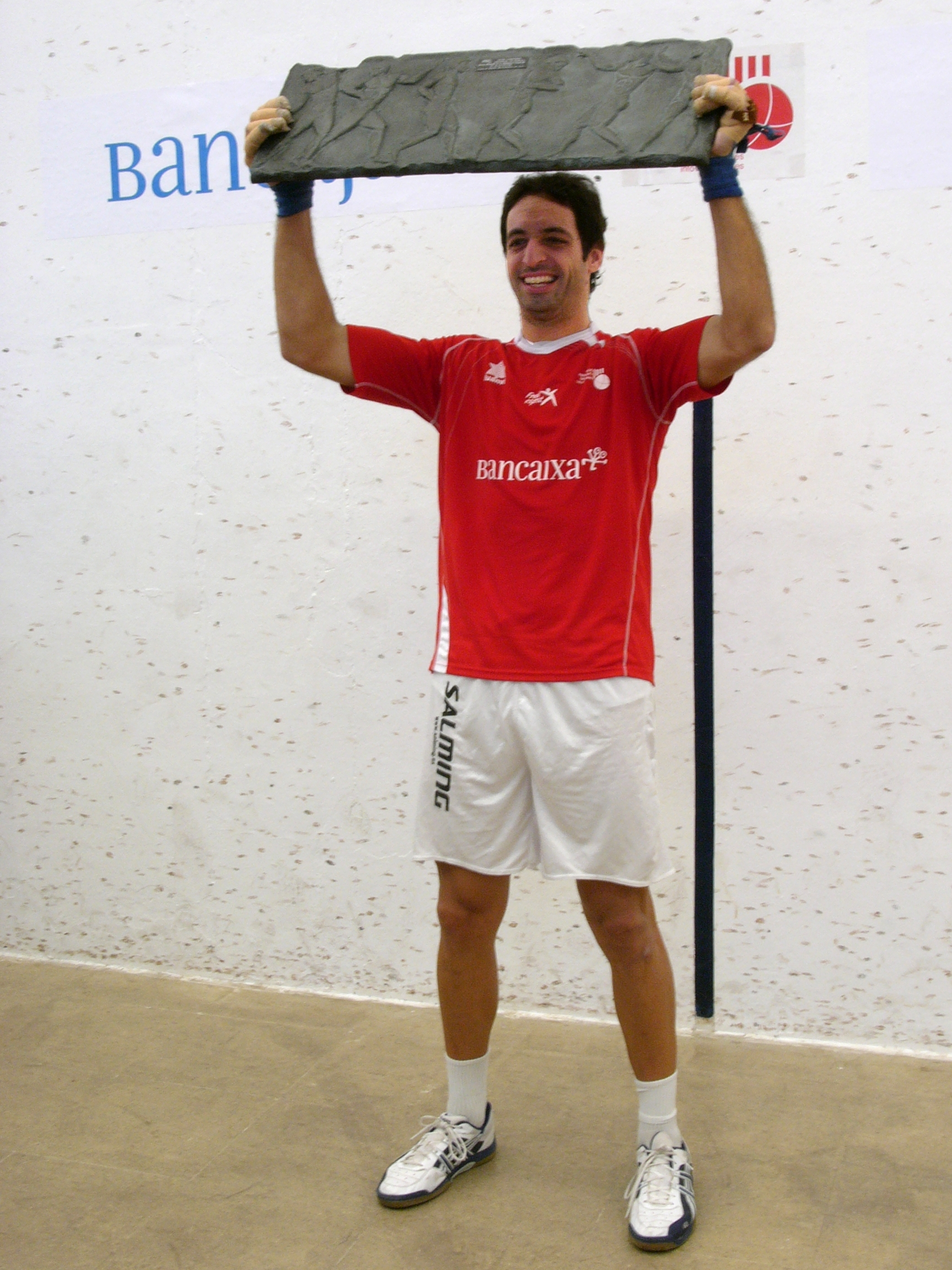 Valencian pilotaire Waldo showing the XXVI Campionat Individual de Raspall three times winner trophy in La Llosa de Ranes